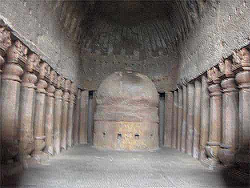 Kanheri in Bombay. Main vihara, prayer room Source: Taken by me, Nichalp on 31-Aug-2005; afternoon